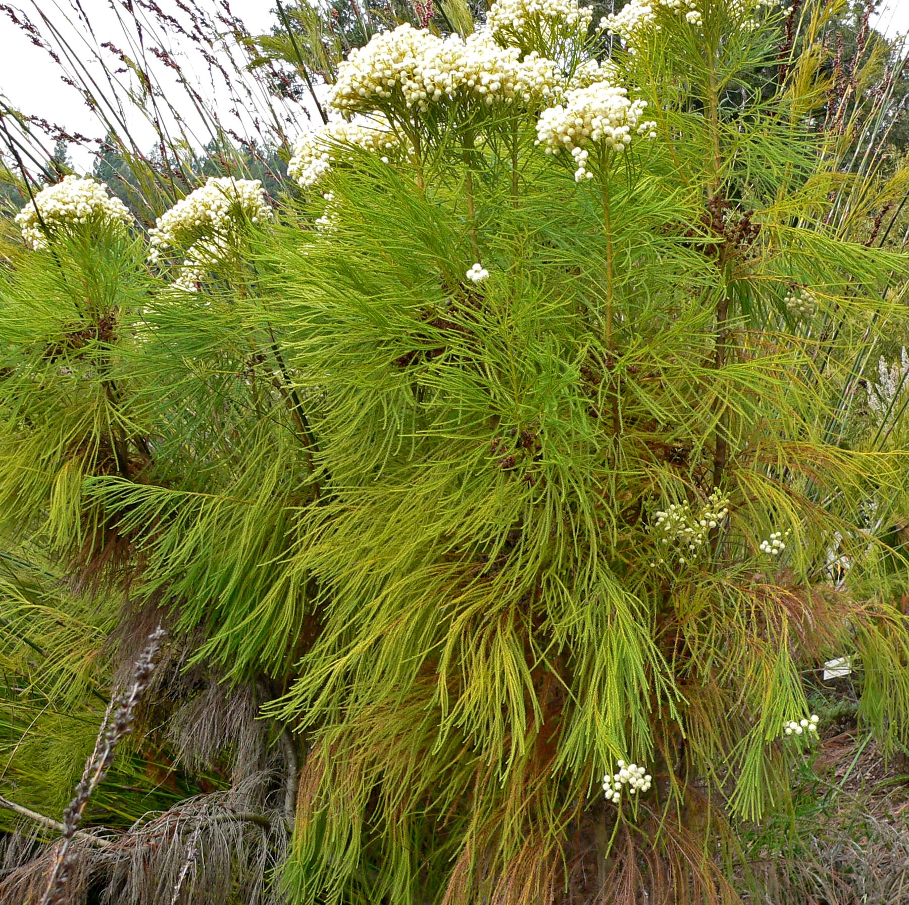 Photo of Berzelia lanuginosa at the University of California Botanical Garden